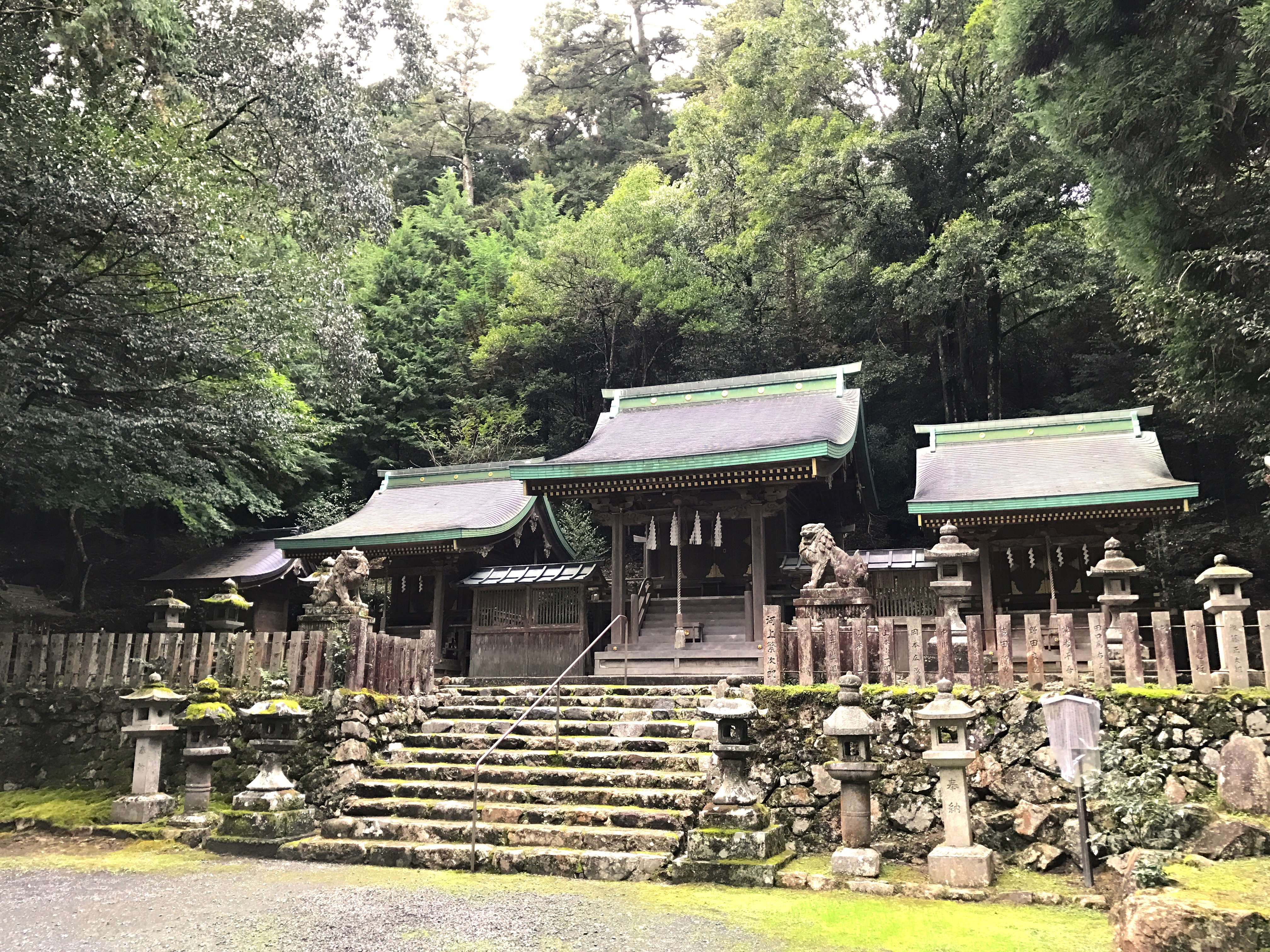 Ebumi-jinja in Sakyō-ku, Kyoto, Kyoto Prefecture, Japan